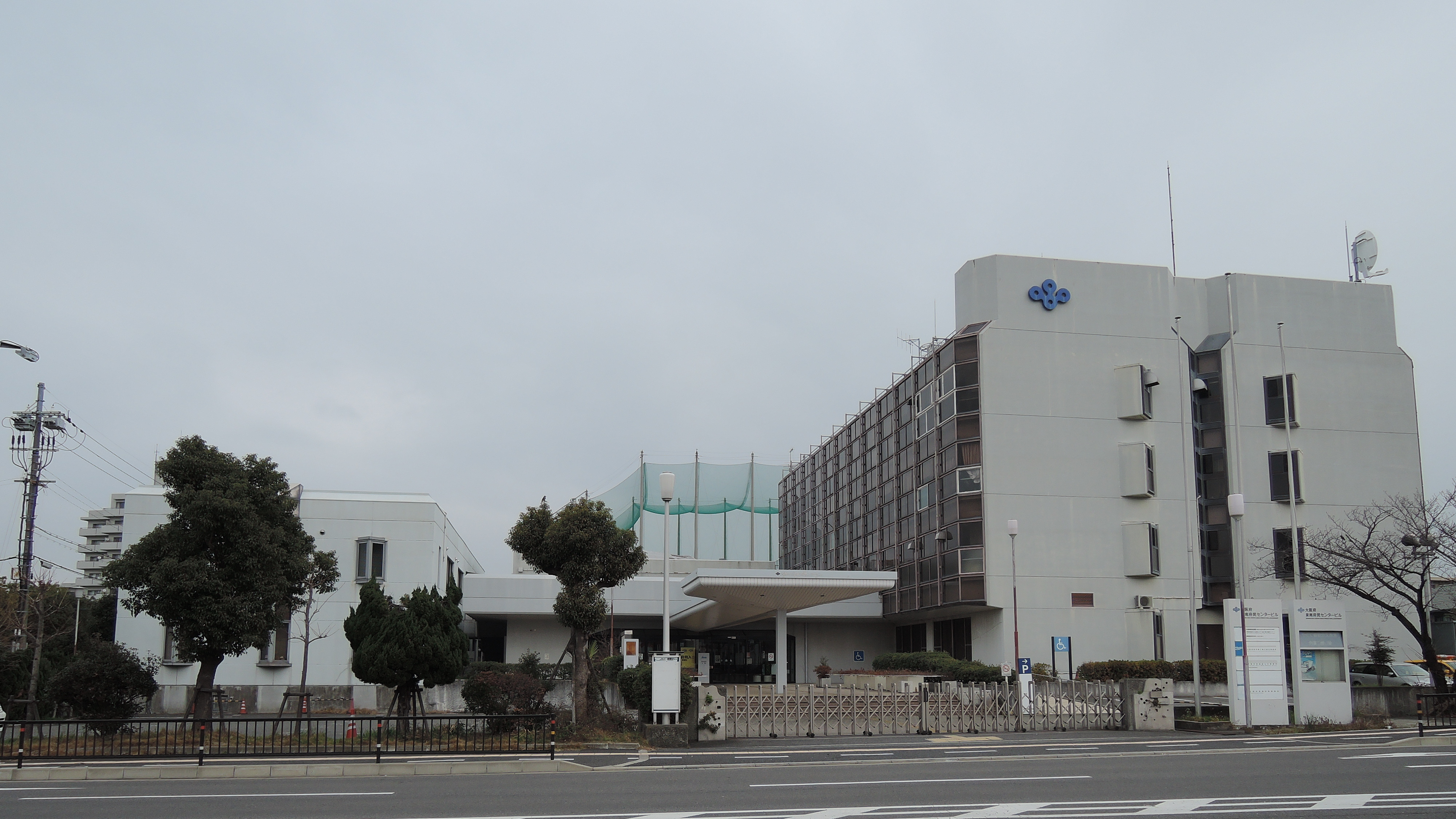 Ōsaka prefecture Sennan civivc center, Osaka prefecture,Japan